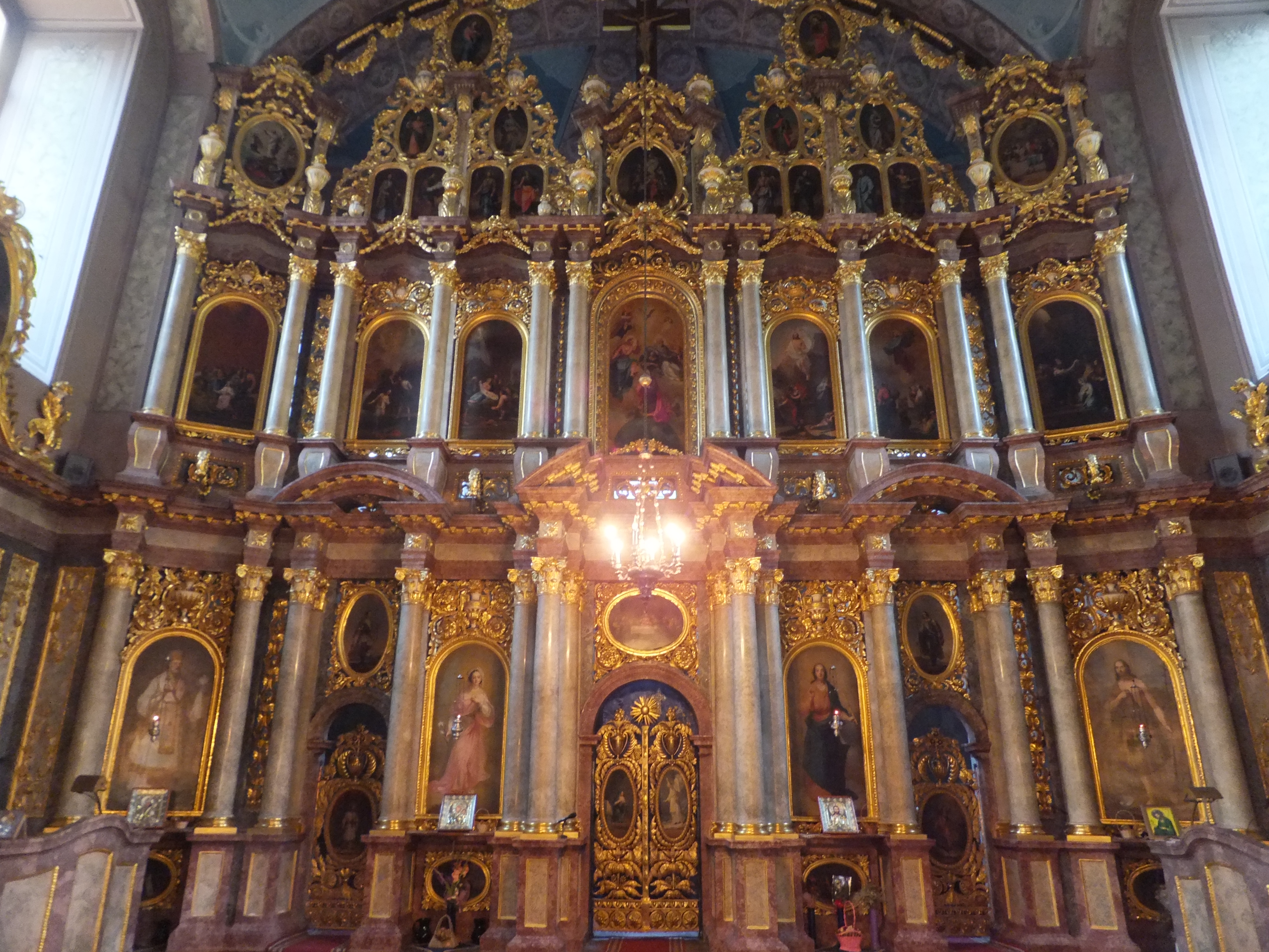 Uspenska crkva Pančevo was built between 1801 and 1810. It was declared a Monument of Culture of Great Importance.